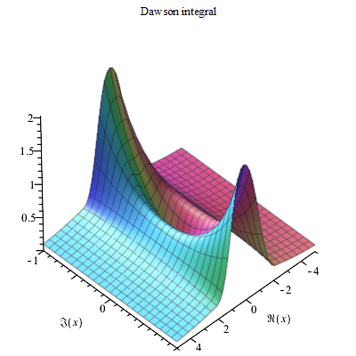 Dawson integral